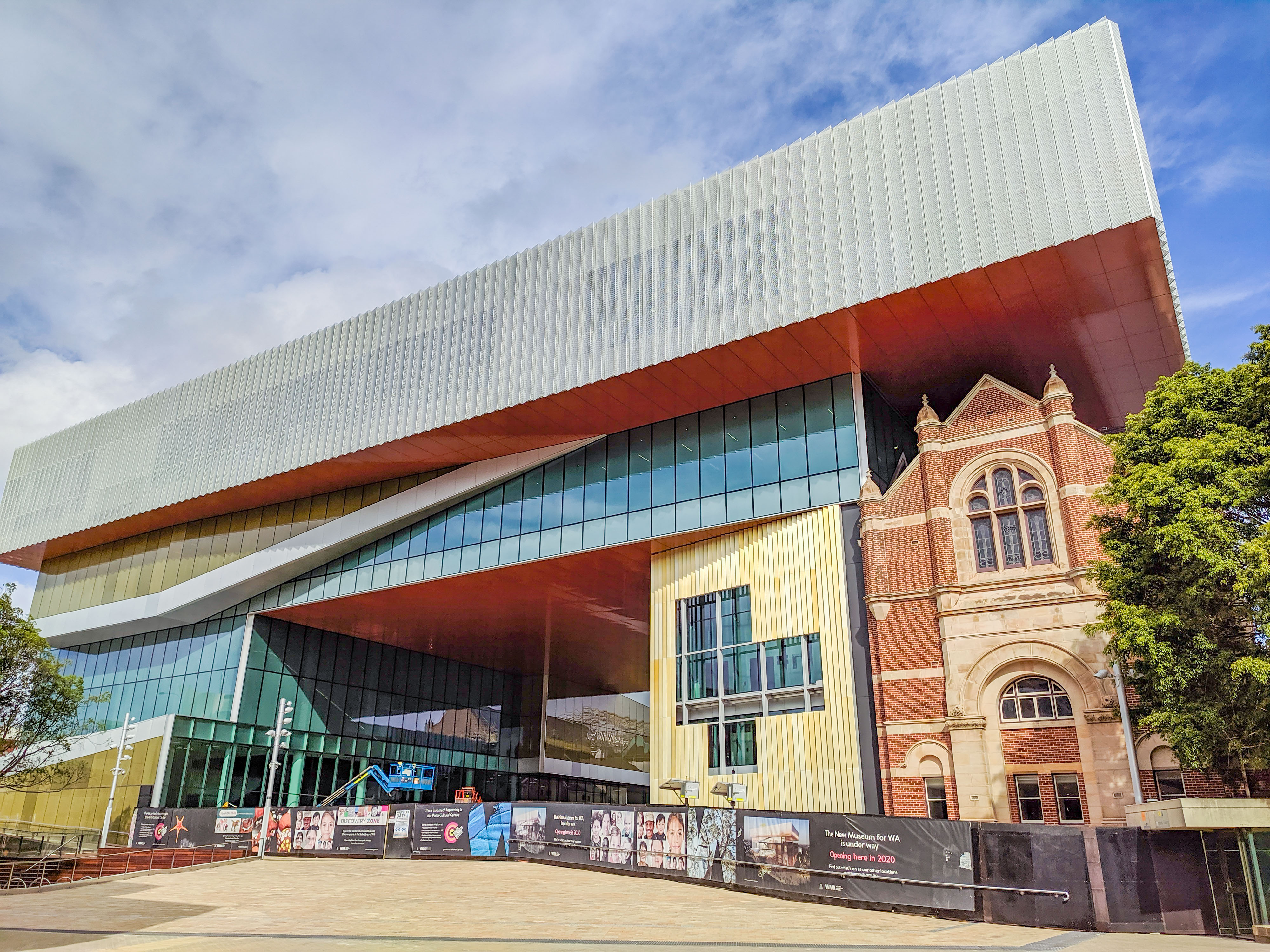 Western Australian Museum – Perth redevelopment nearing practical completion